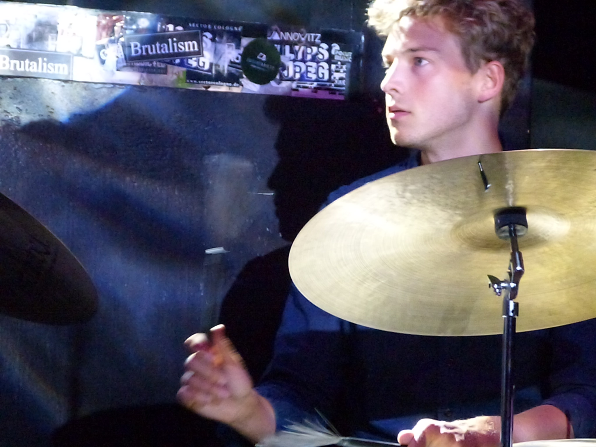 Fabian Arends in concert “Pommes People” with Sebastian Büscher (ts), Florian Herzog (b) and Janning Trumann (tb) at ARTheater Cologne, Germany, August 9th, 2016